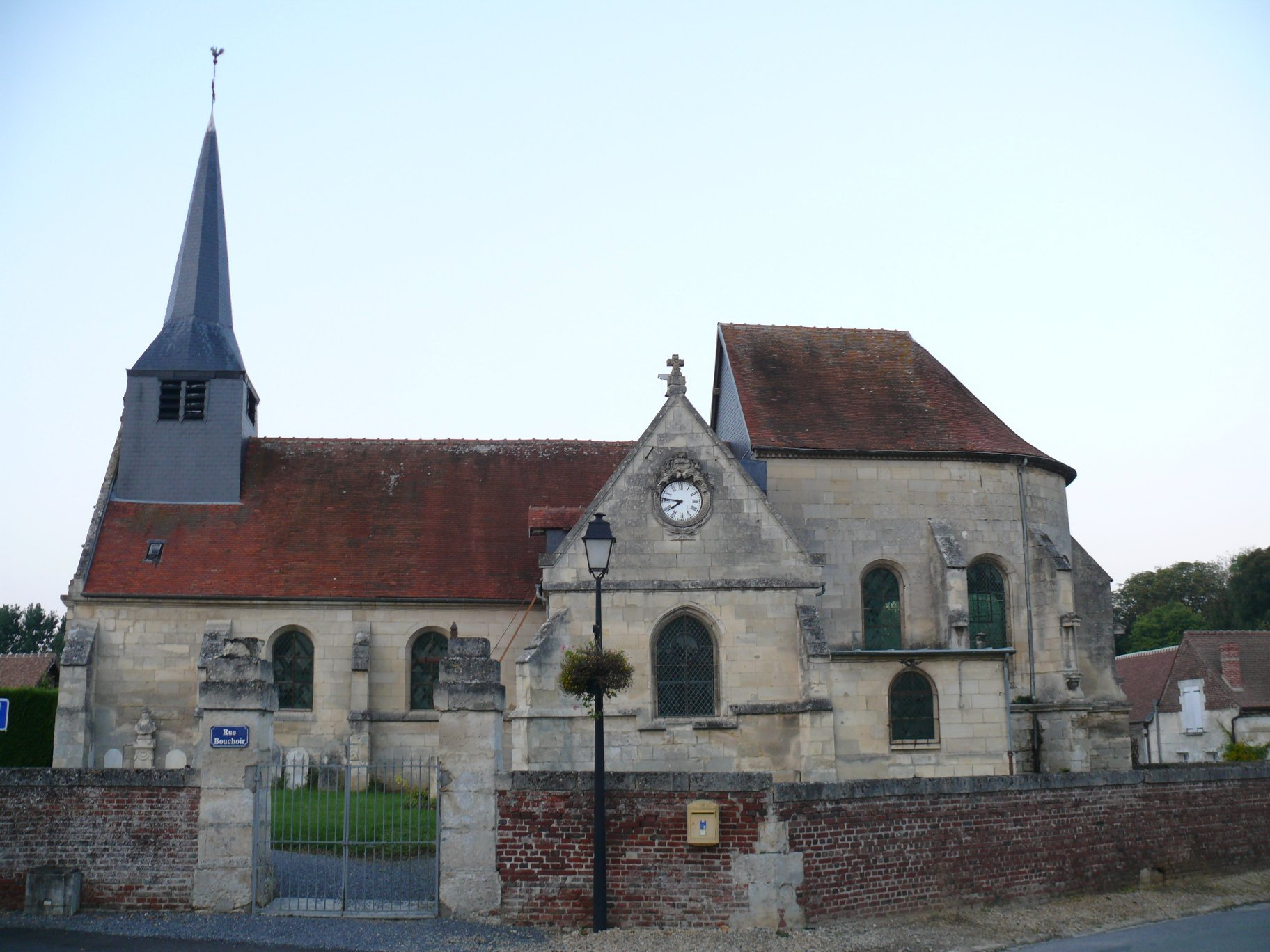 Saint-Vaast's church of Marest-sur-Matz (Oise, Picardie, France).